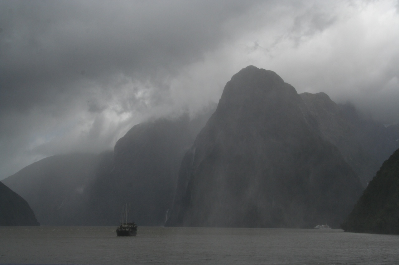 Milford Sound Storm